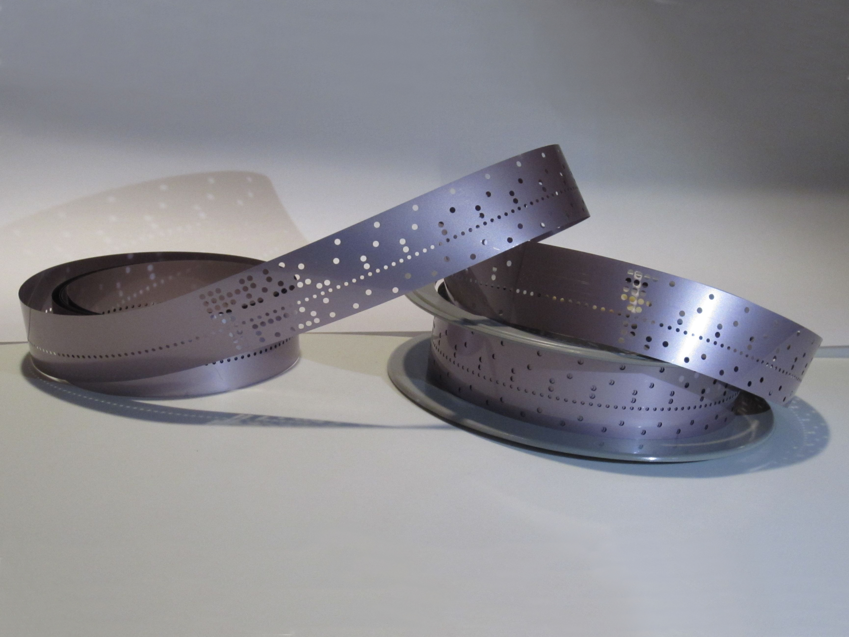 8-level punched Mylar tape, used to store programs and data for a computer system circa 1979. Mylar tape was more durable and stable than punched paper tape.